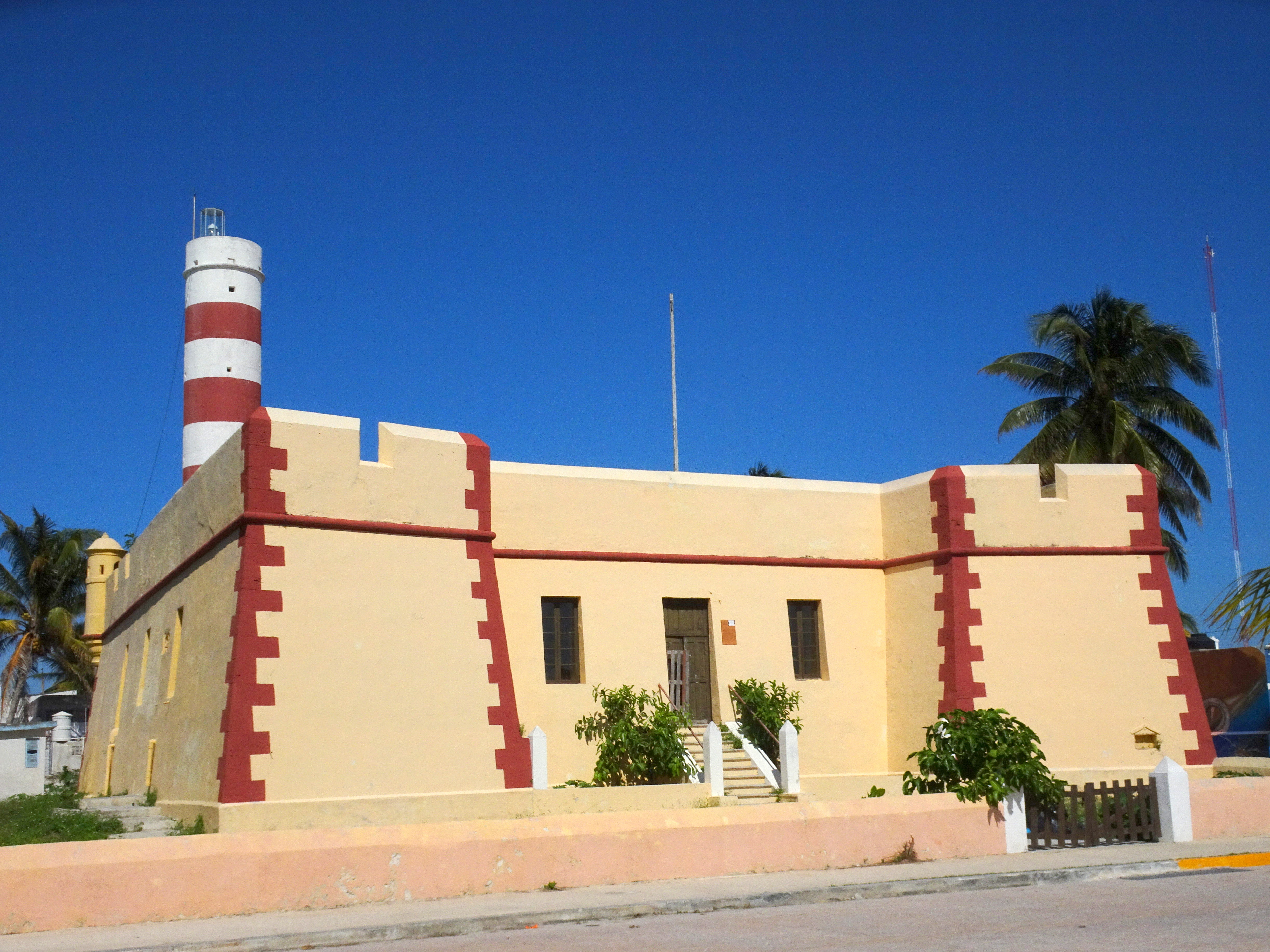 the "Castle of Sisal" and an old lighthouse